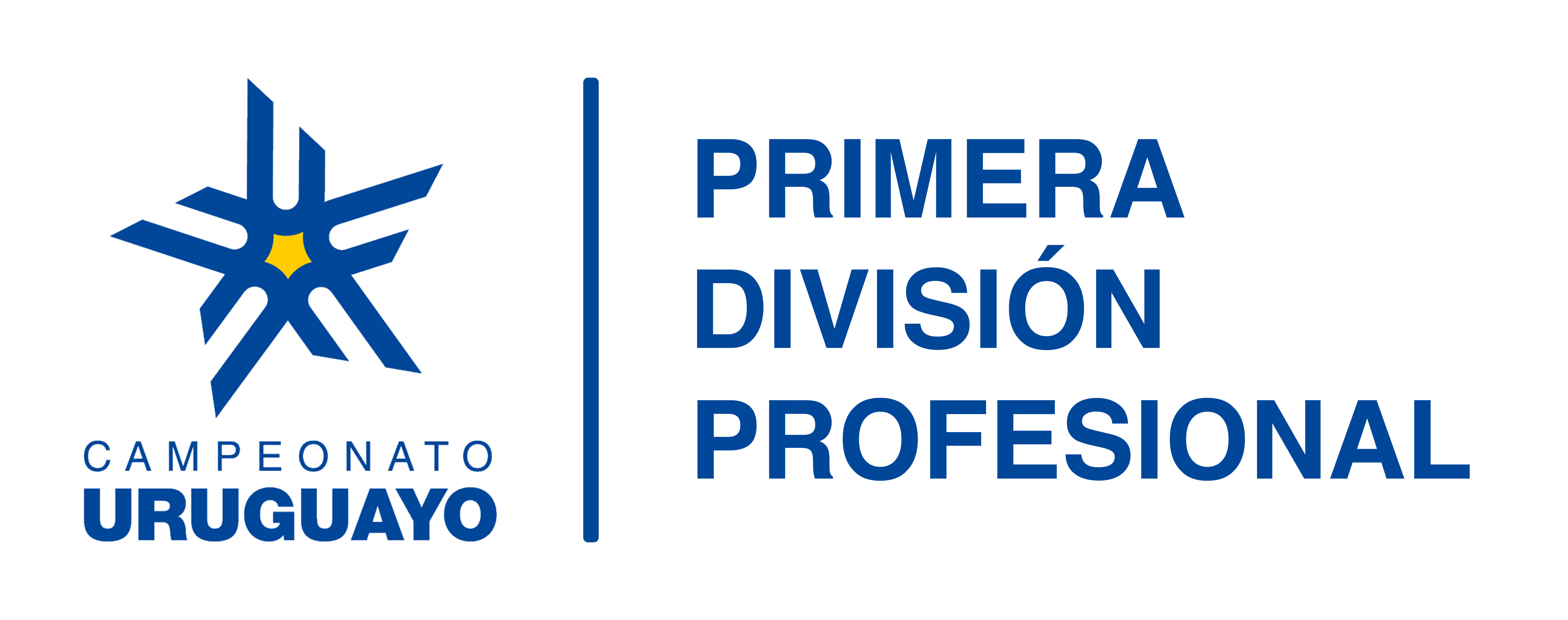 Logo of Uruguayan Primera División championship.